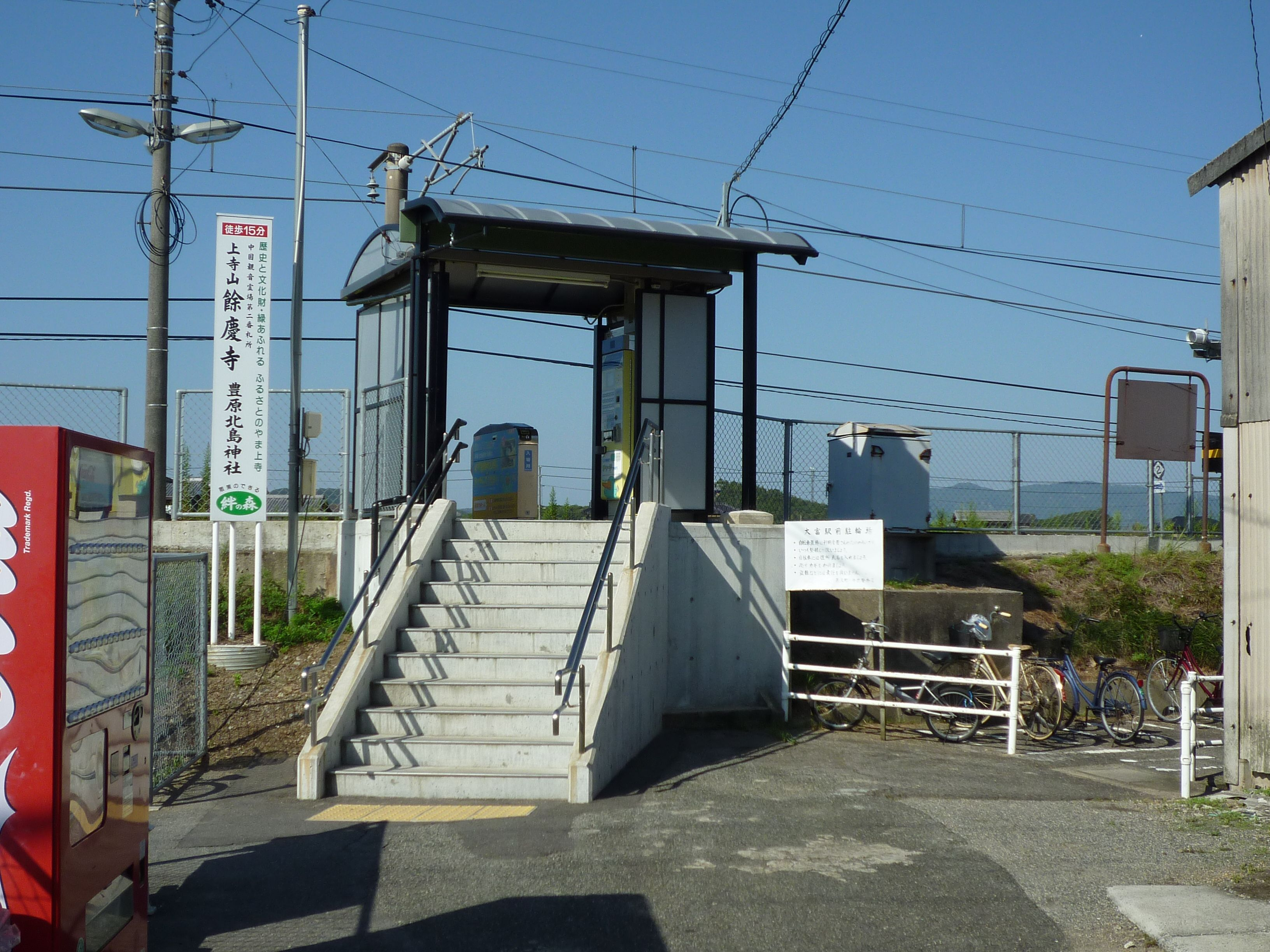 West Japan Railway, Ako Line, Odomi Station (Setouchi City,Okayama Pref,JPN)